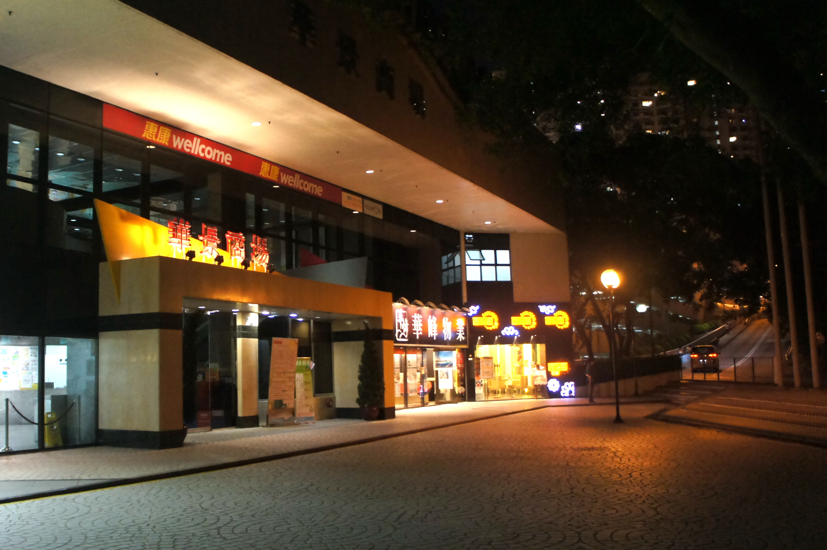 Wonderland Villas Commercial Complex, Wah King Hill Road, Lai King, Kwai Chung, Hong Kong.